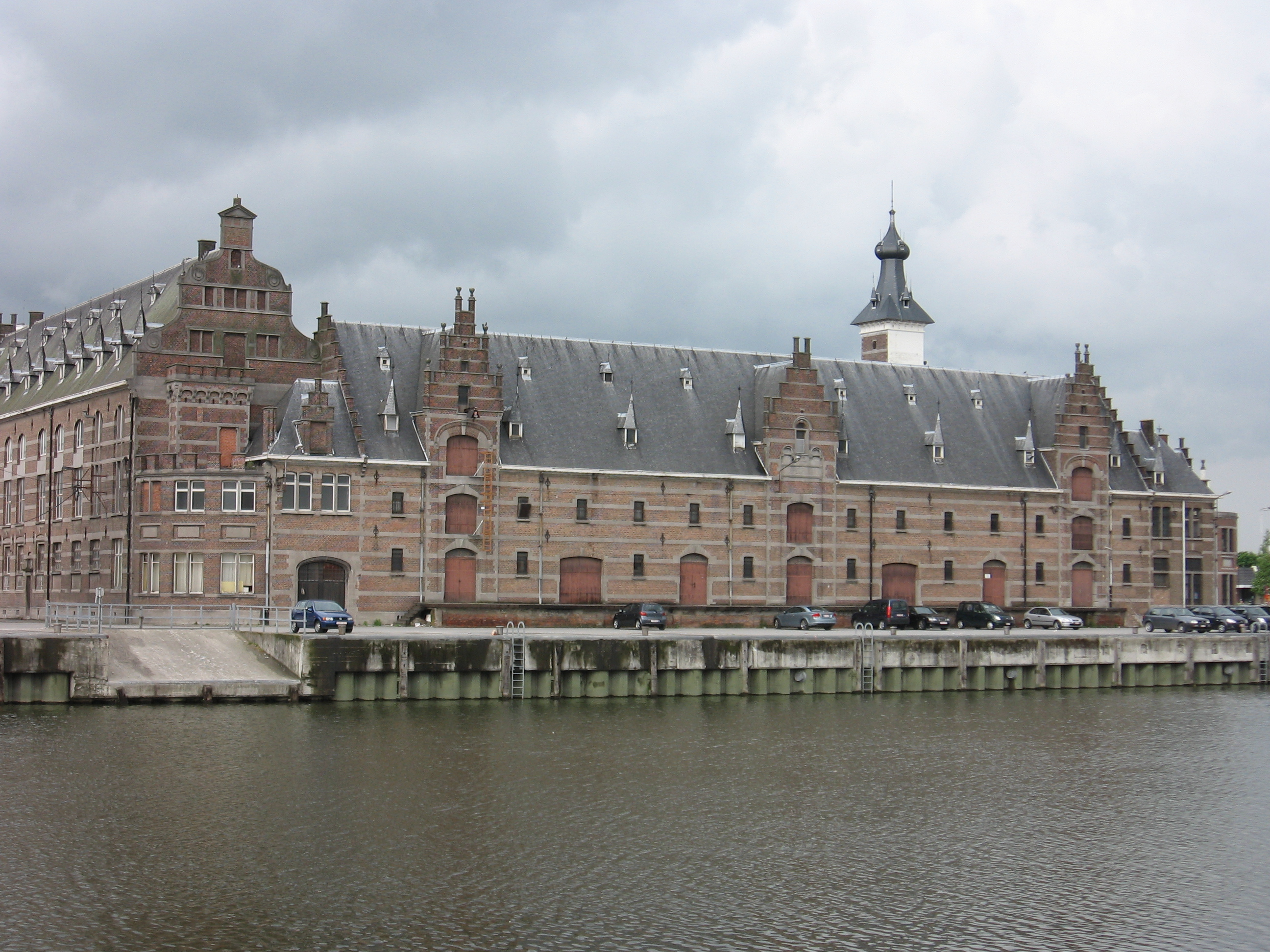 zwemdok, Mechelen